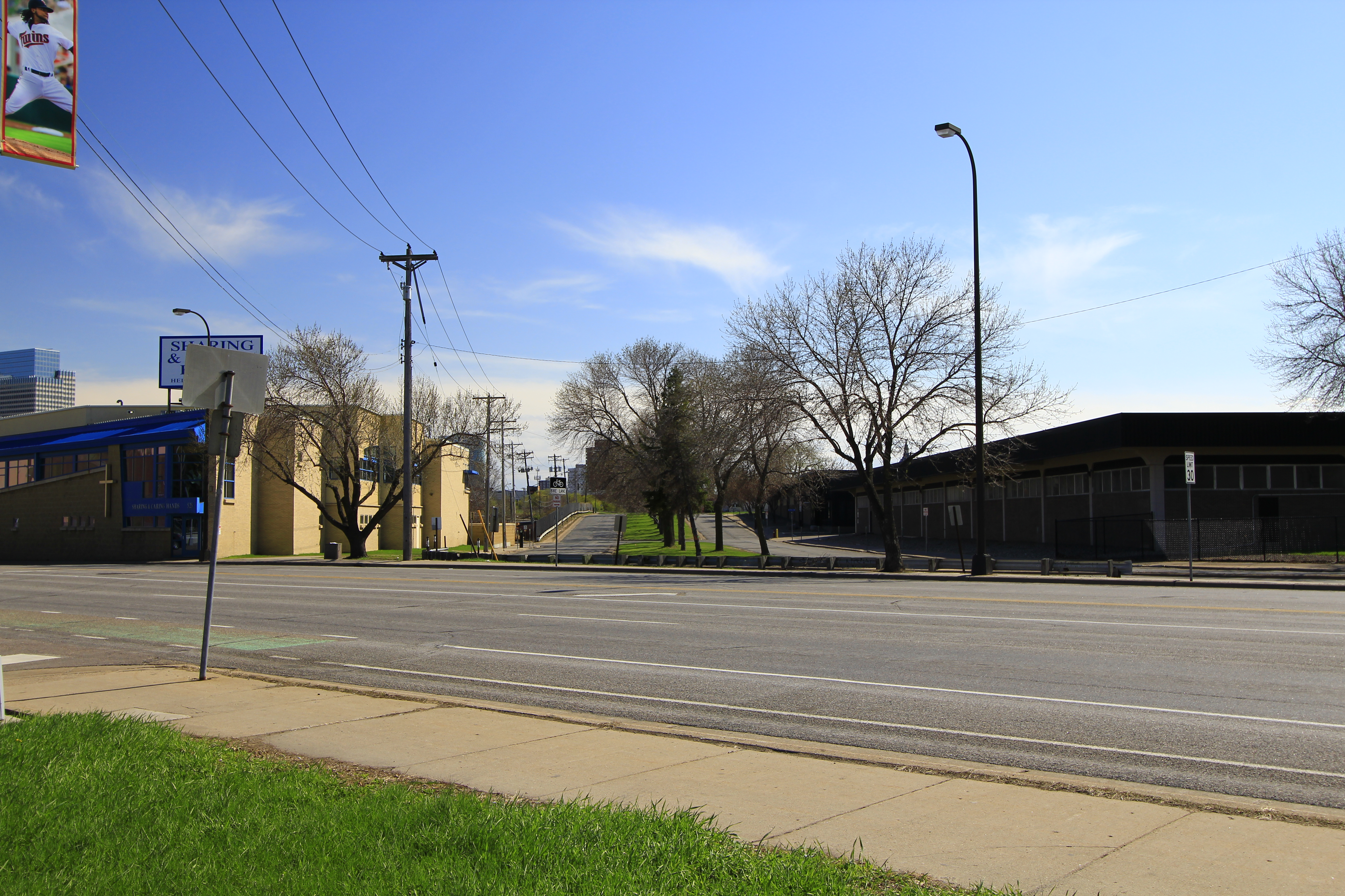 Looking down Royalston Avenue, which will carry the Southwest extension of the Green Line light-rail service.